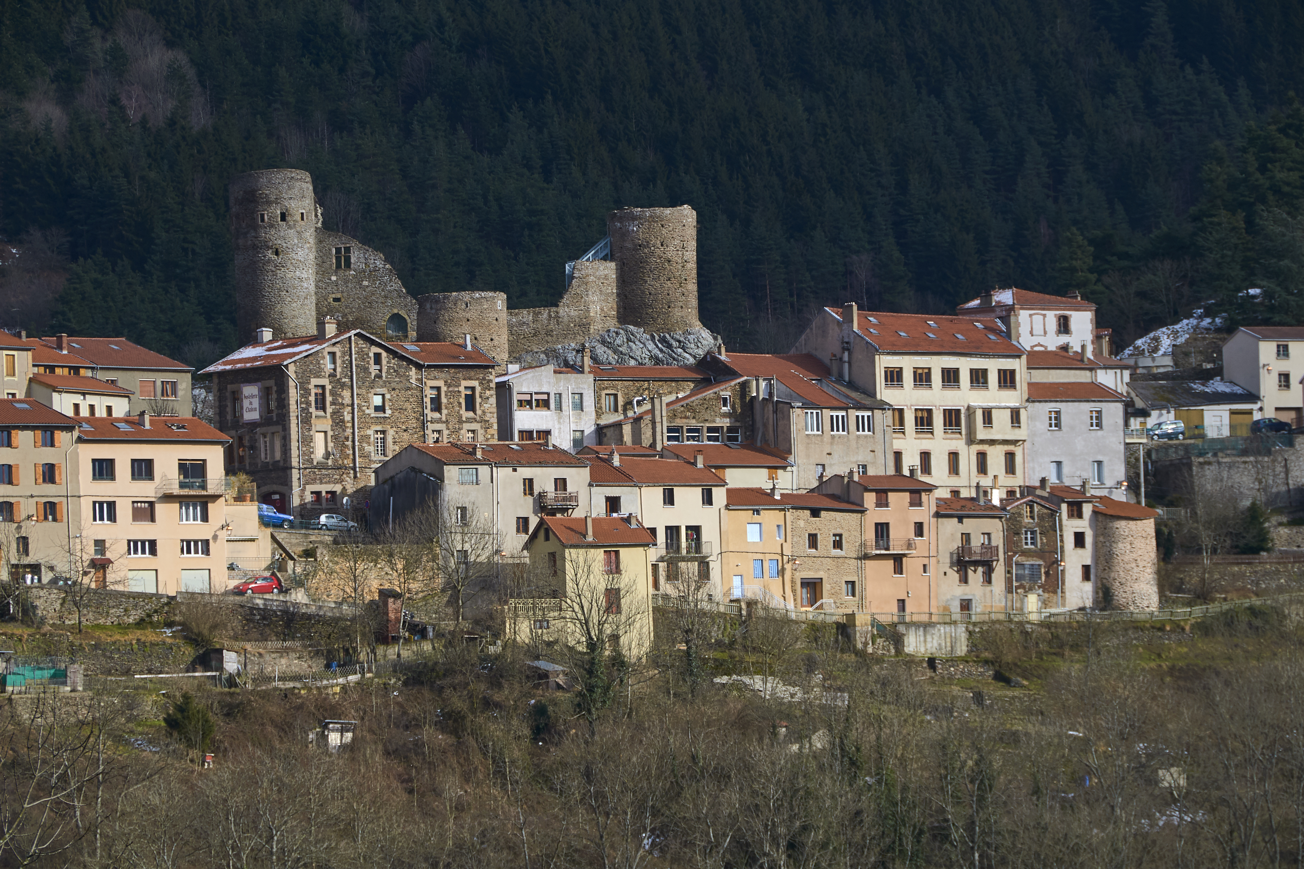 The village of Rochetaillée, Loire department, France. With the ruins of the castle in the background.